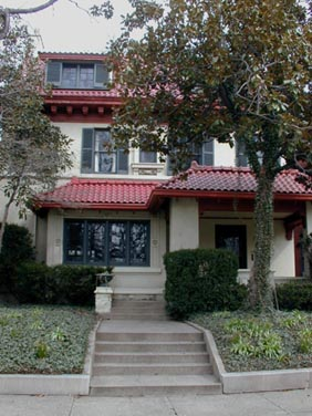 Thomas Hoyt and Annie Jones Gamble Residence. Louisville KY